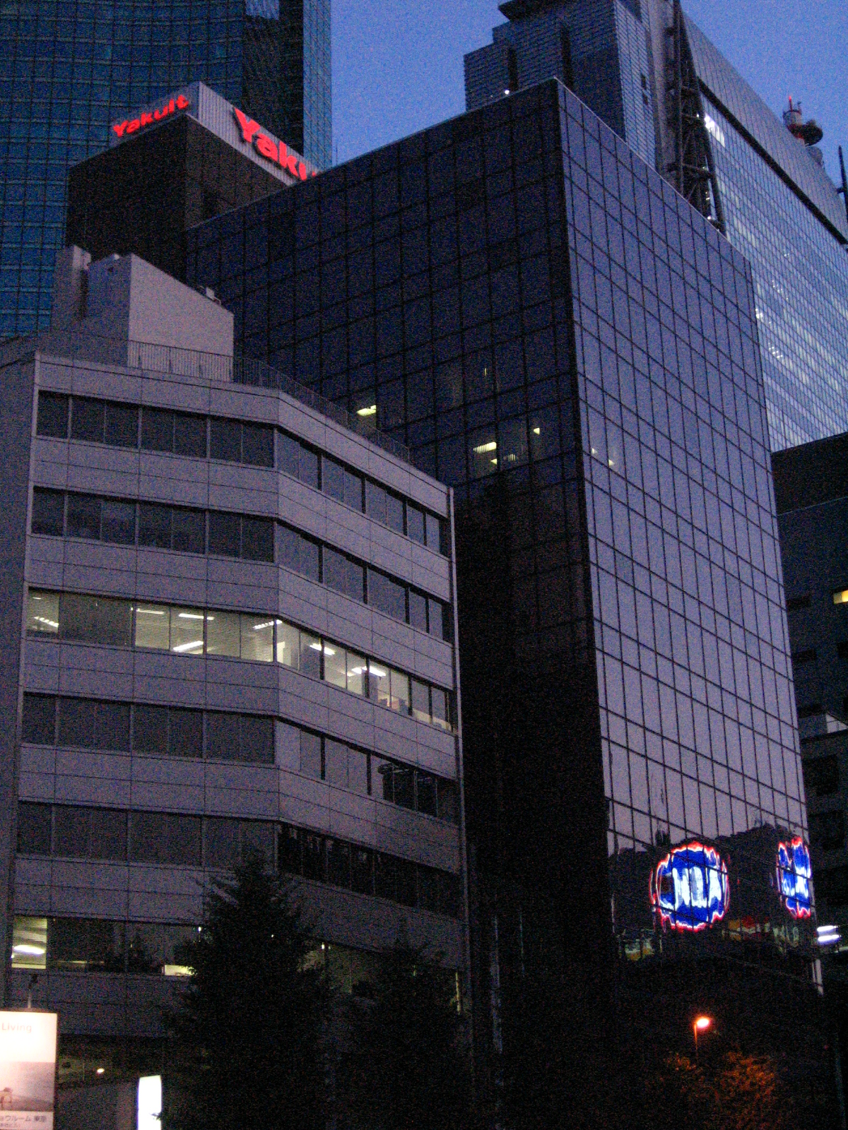 Yakult Honsha Building in Shimbashi, Tokyo.